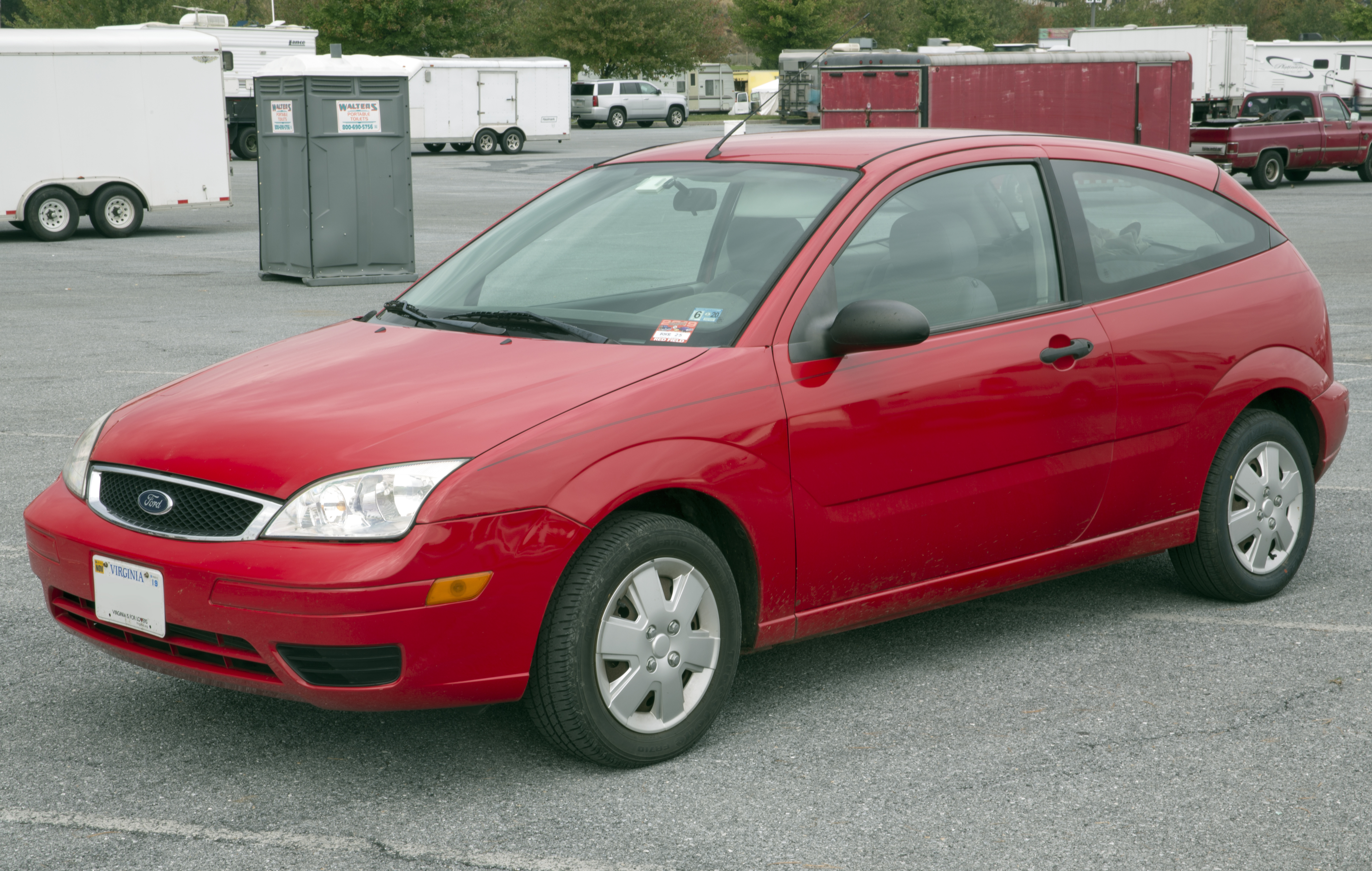 2007 Ford Focus SE (ZX3, although '07s don't carry such badging) in the flea market area at Hershey 2019. Last year for the first gen Focus in the US. 2.0-liter Duratec 20 engine with 136hp, built in Wayne, MI. Twenty years from now it will be in the sale section.